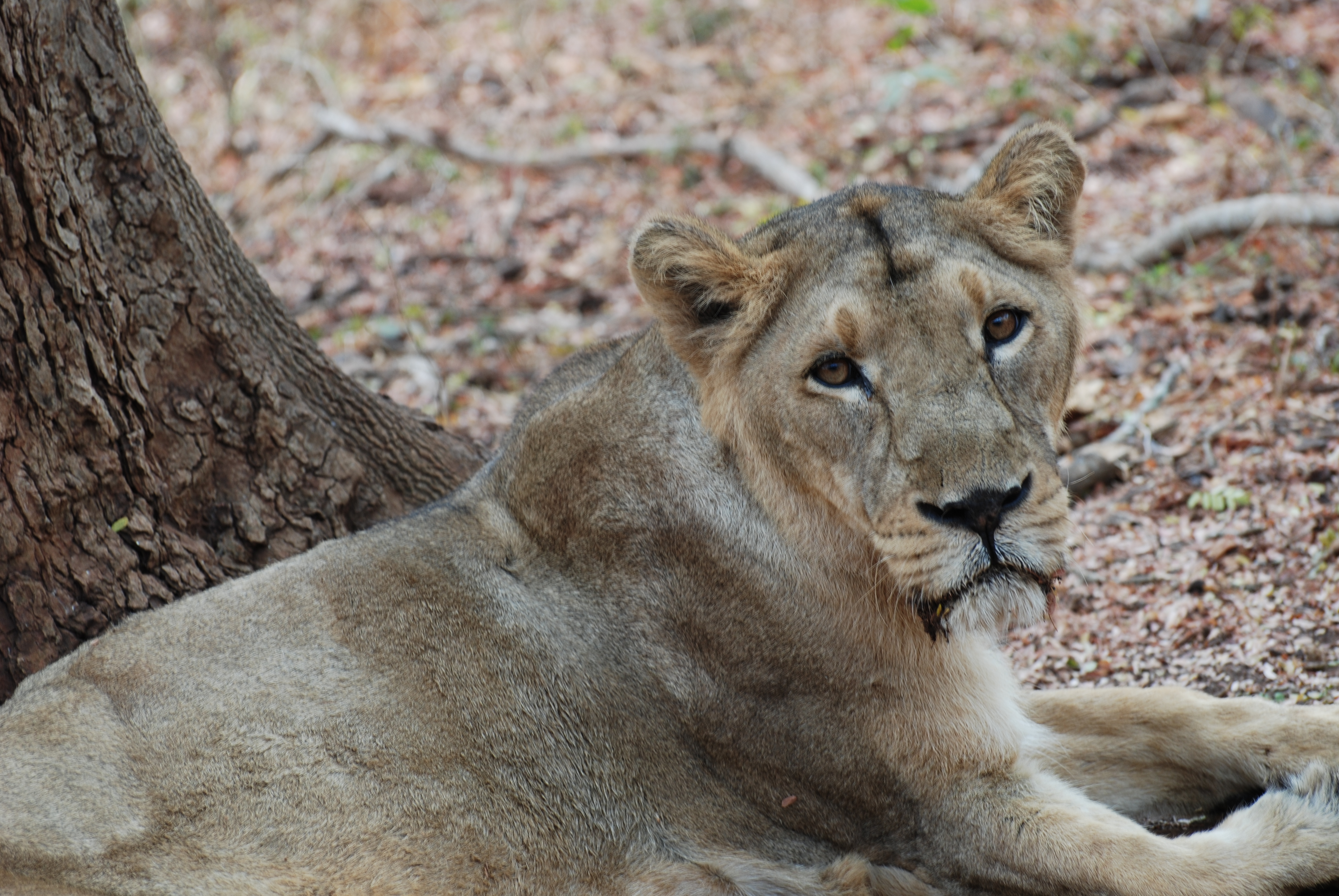 Asiatic lion(ess), Karnataka, IndiaAsiatic lion(ess), Karnataka, India